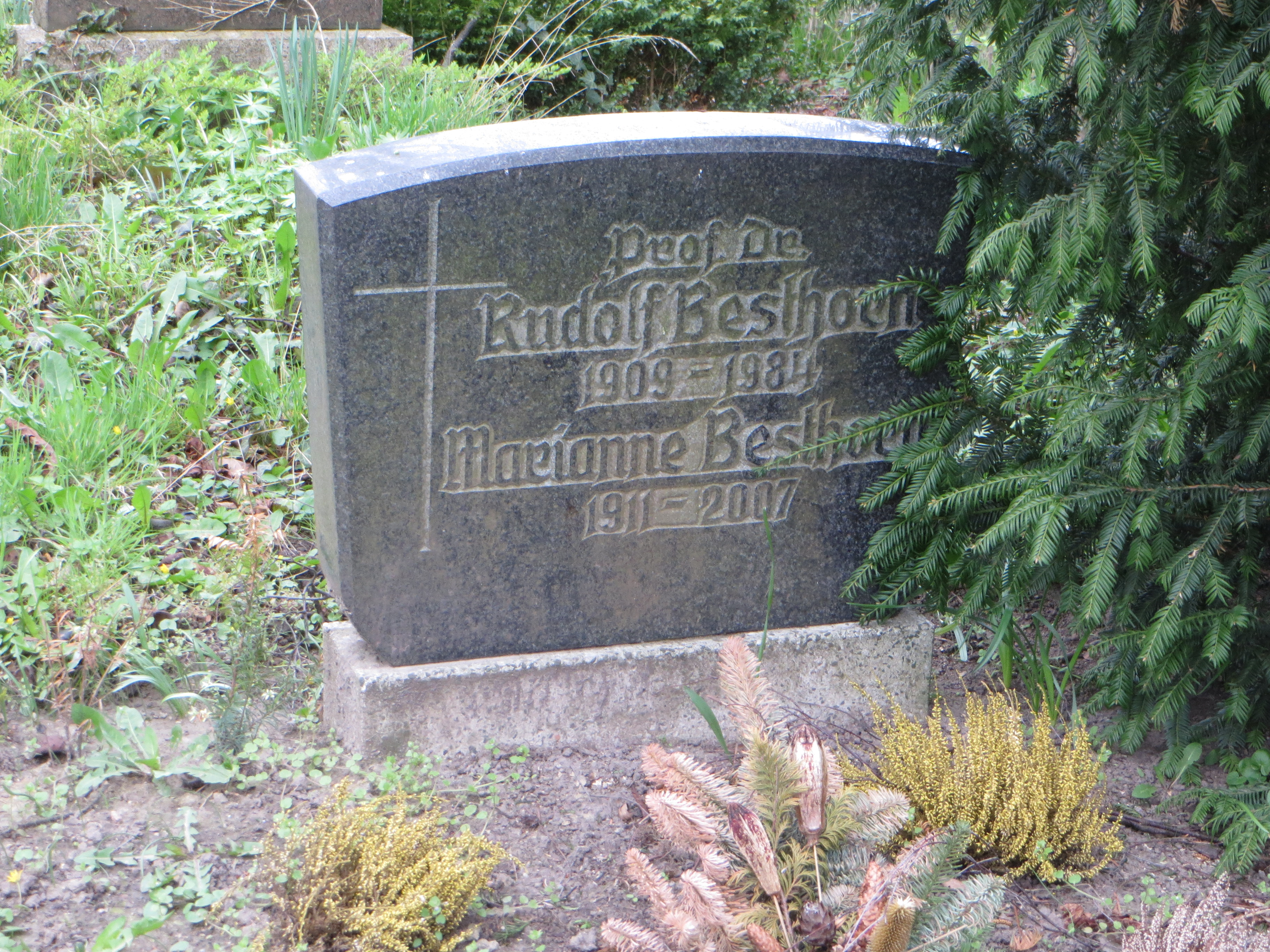 Churchyard in Wieck, April 2014; grave of Rudolf Besthorn